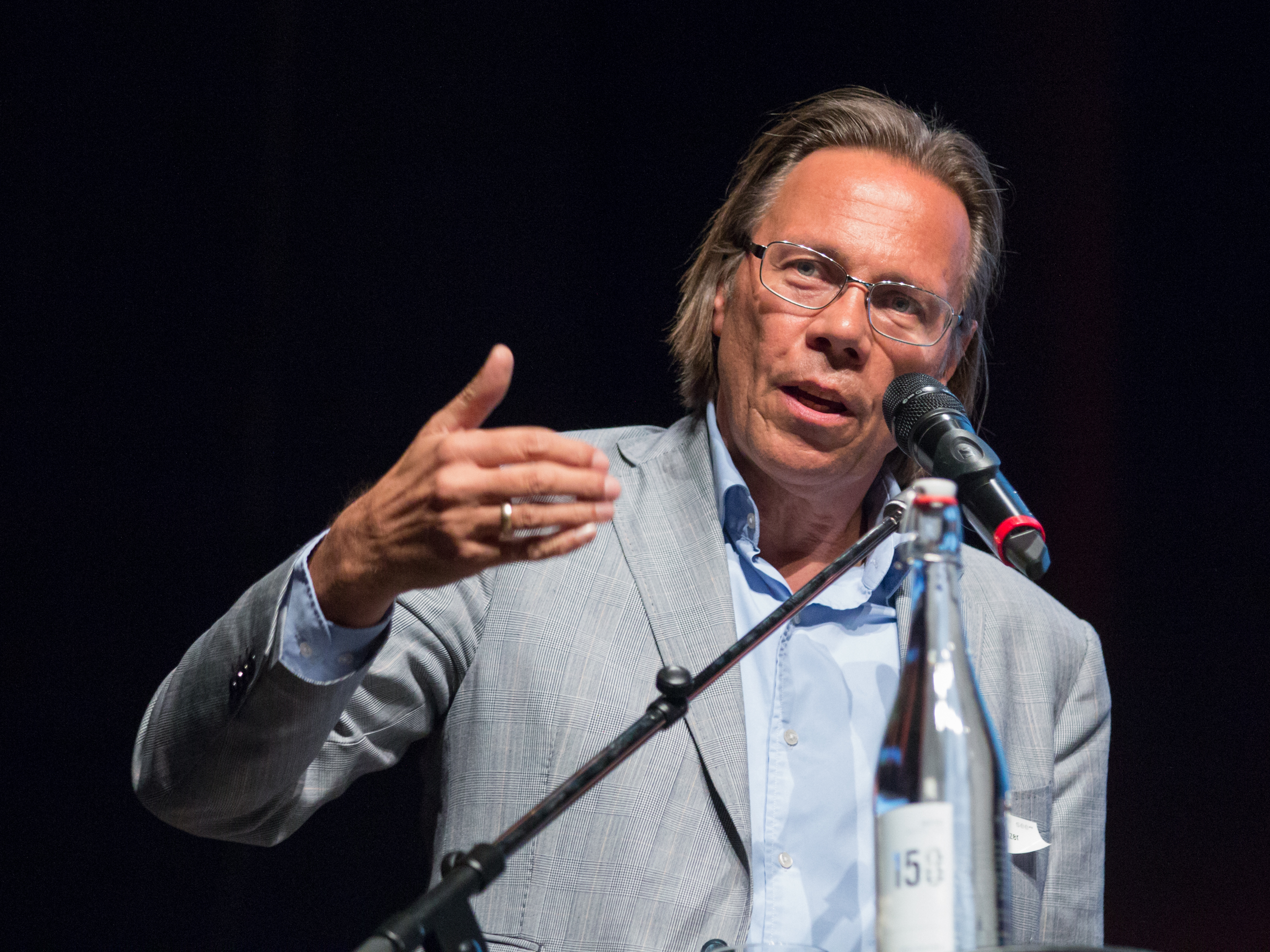 Harald Welzer at the See-Conference 2015 in the Schlachthof Wiesbaden